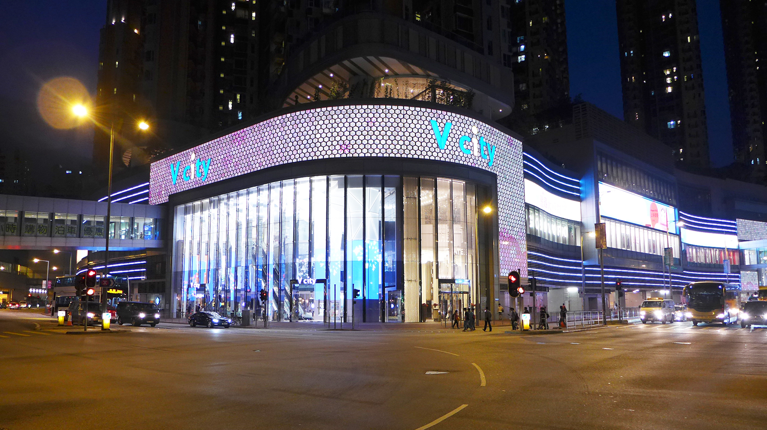 V City Night View